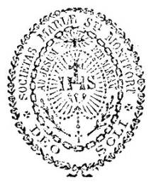 Seal of Montfortian Missionaries, from a print of 19th cent.